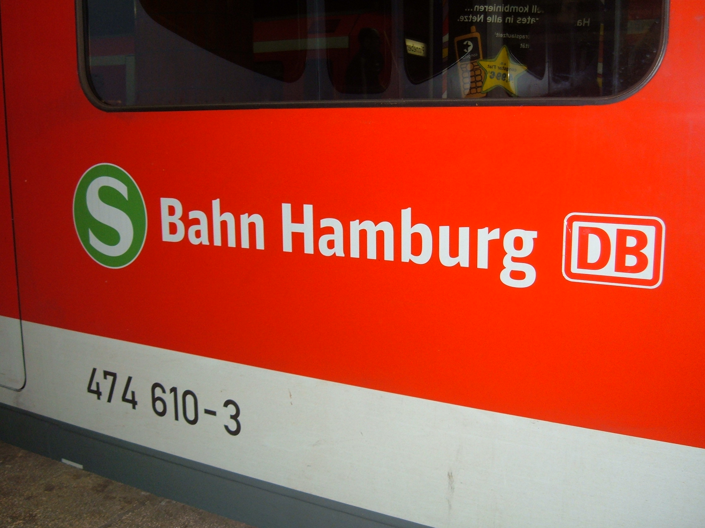 Logo of Hamburg S-Bahn as of December 9 2007